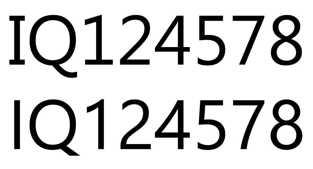 This image illustrates the notable character changes of the Segoe UI typeface. The top one is from Windows Vista and Windows 7, while at the bottom one is the Windows 8 revision.